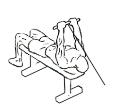 an exercise of triceps